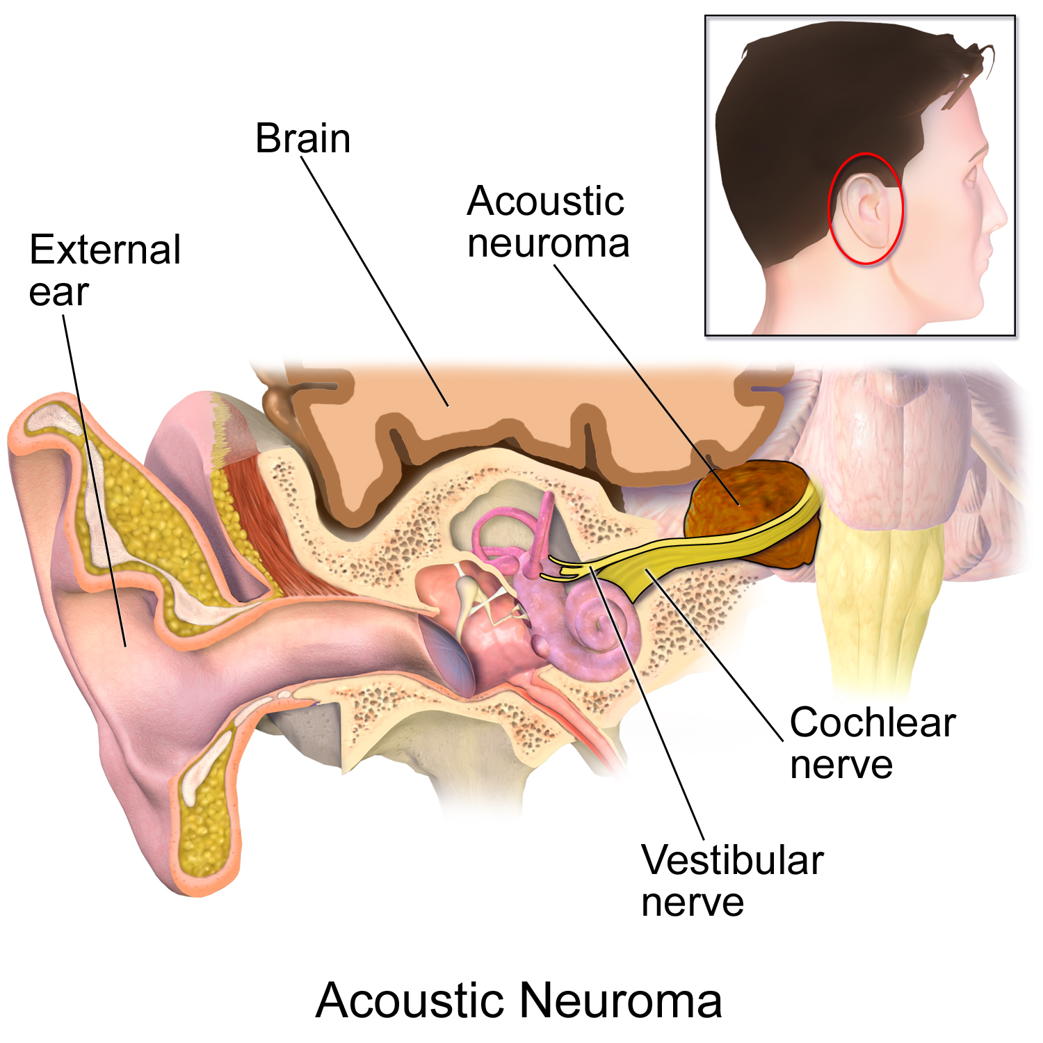 Acoustic Neuroma. This image was donated by Blausen Medical. Please visit our website to see more medical illustrations and animations.